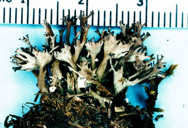 Cladonia multiformis G. Merr. (photograph of a herbarium specimen) Growing with moss on granite boulder along S bank of the St. John's River, 20 miles W of Fredericton, New Brunswick, Canada; collected and identified by A. Norden and B. Norden (No. 642, 8 Jun 1974); specimen is now in the Lichen Herbarium of the New York Botanical Garden. (millimeter scale)